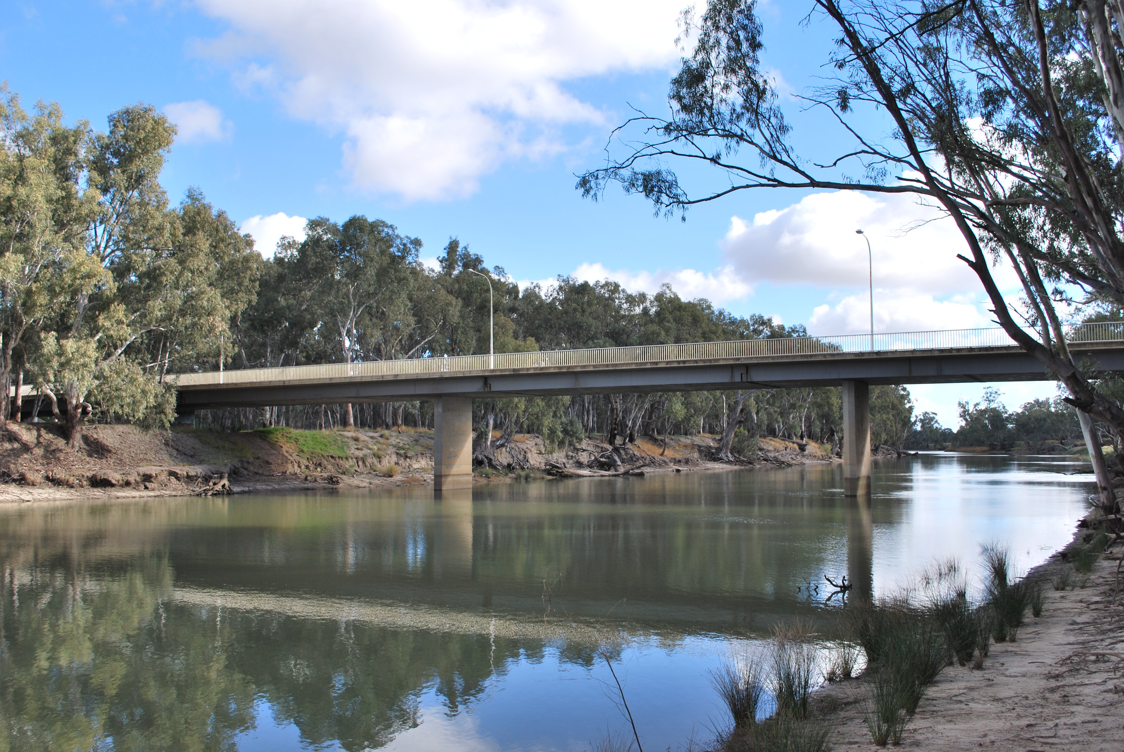 Bridge over the Murrumbidgee River at Hay, New South Wales